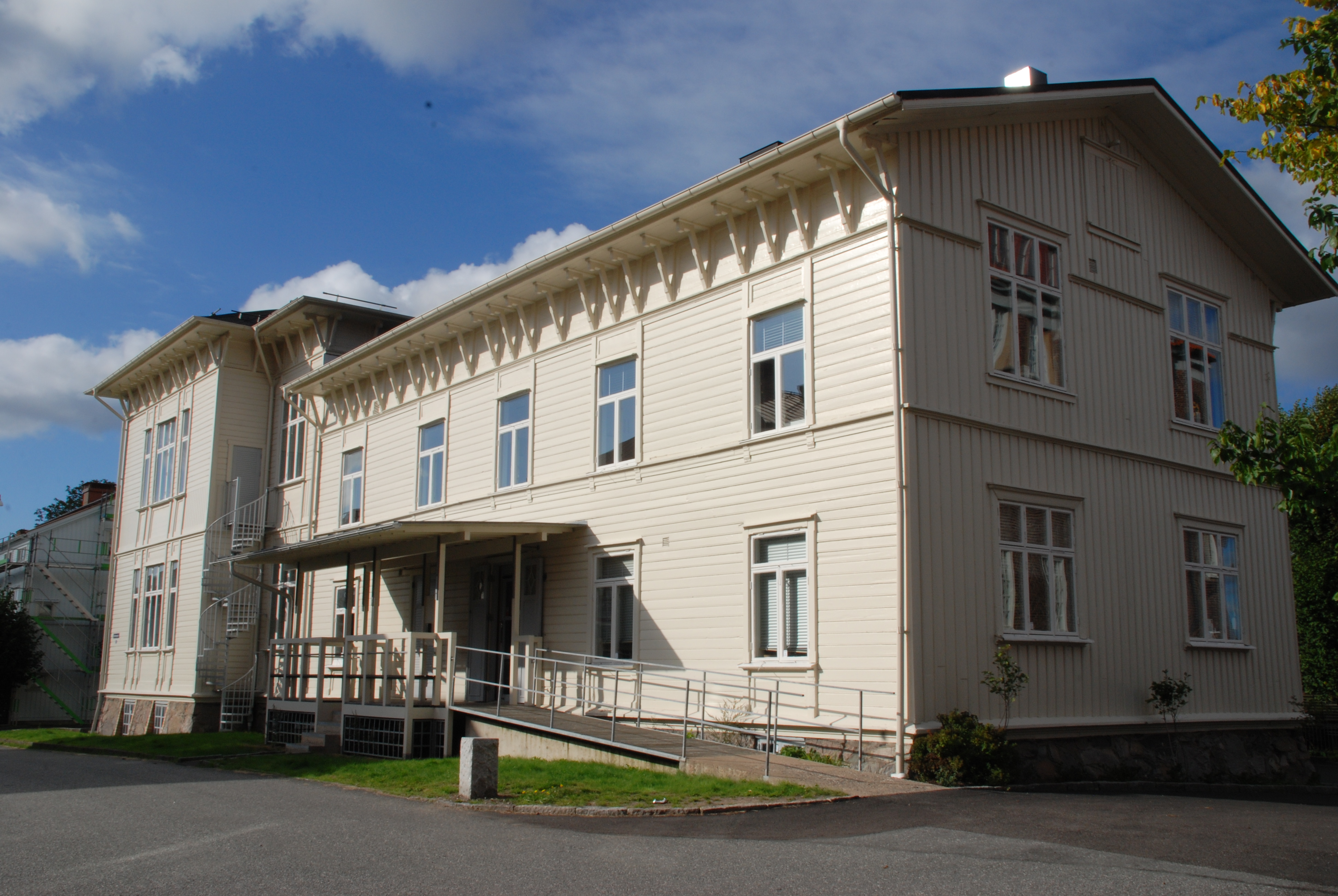 The school Lindholmsskolan on Lindholmen in Göteborg.